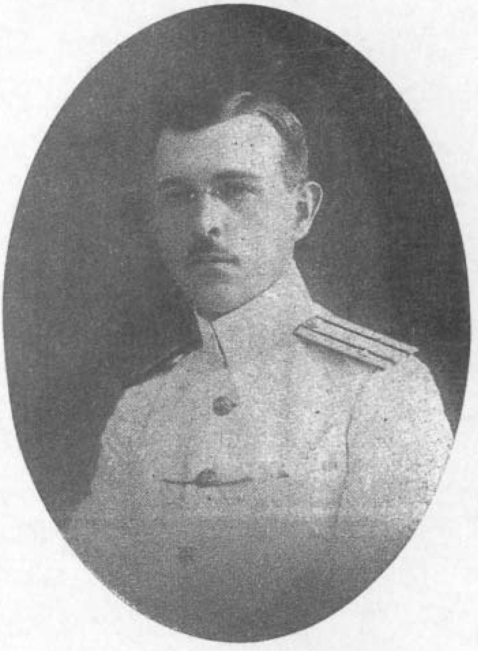 Photo of Boris Sederholm